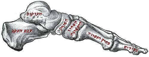 FIG. 290– Skeleton of foot. Medial aspect.